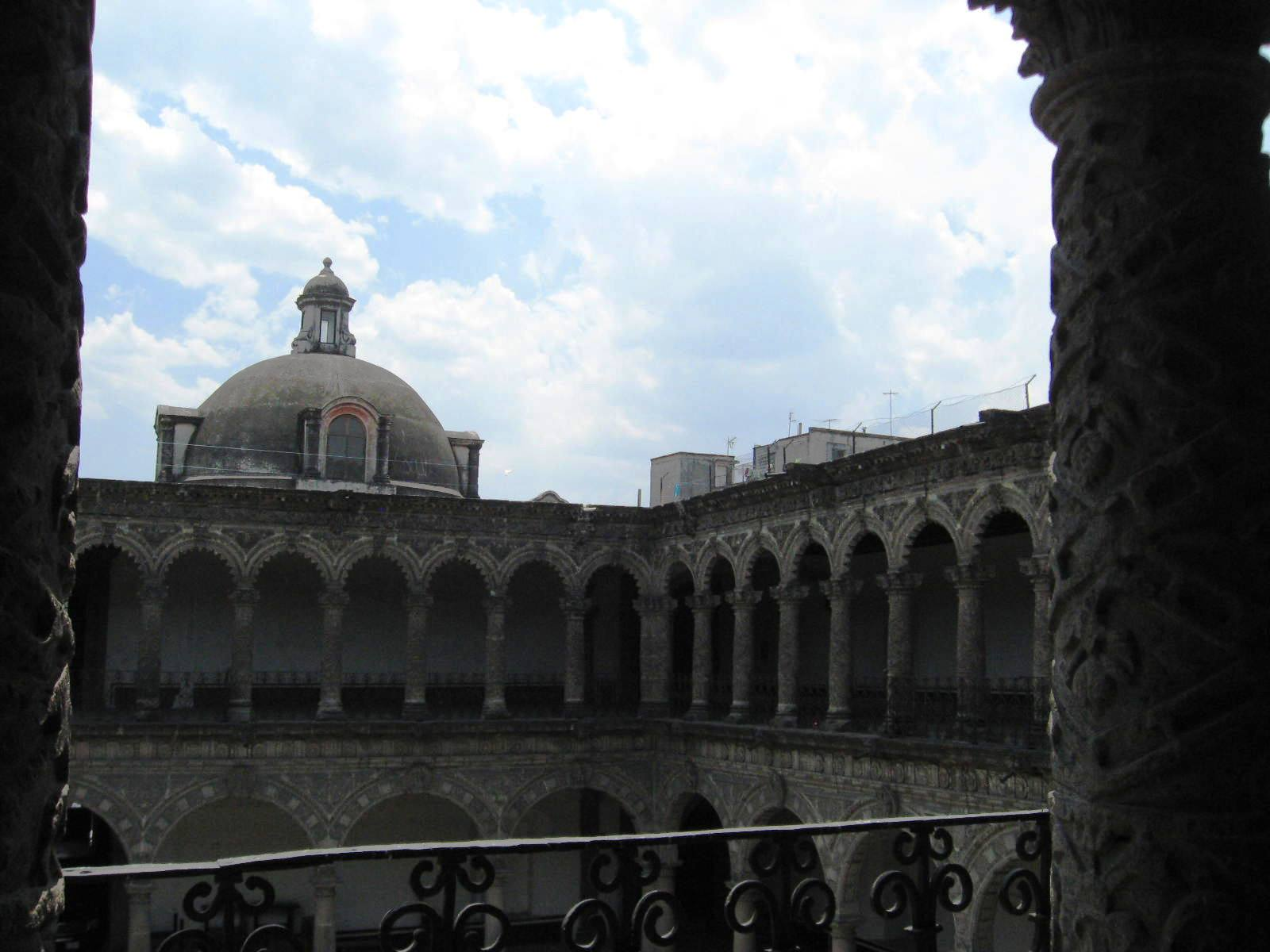 Tower over stairwell on southern or street side of the La Merced Monastery in Mexico City